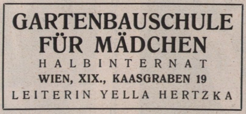 Advertisement for the gardening school for girls in Vienna led by Yella Hertzka.